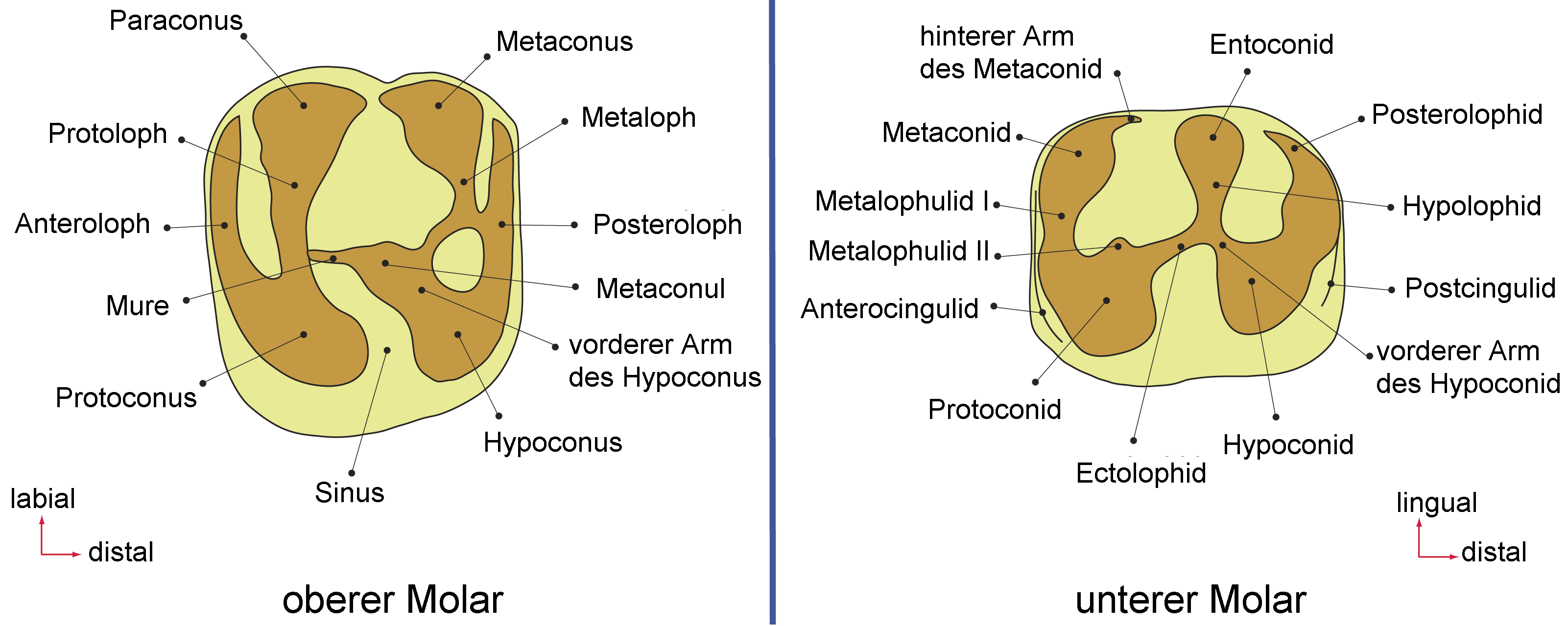 Dental terminology of the cheek teeth of Birkamys and Mubhammys, German translation